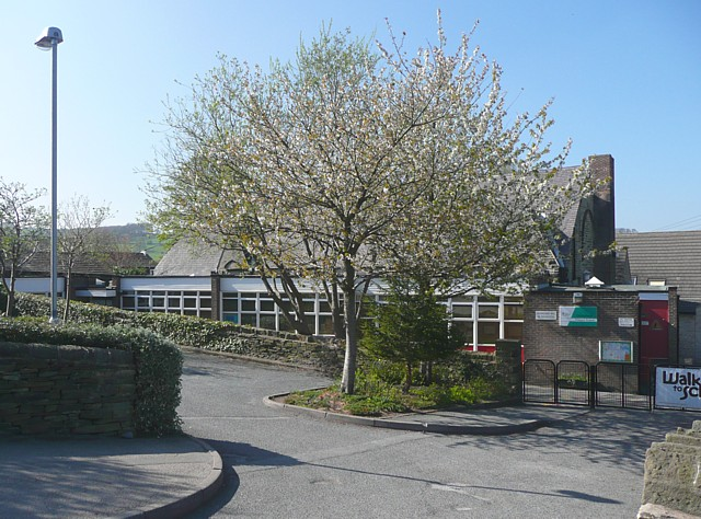 Netherthong School Netherthong has grown considerably during the 20C, with large new estates such as those on the sites of Deanhouse Hospital and Mills, and it is good that it still has its own primary school. The 19C building has been retained, with single-storey extensions.